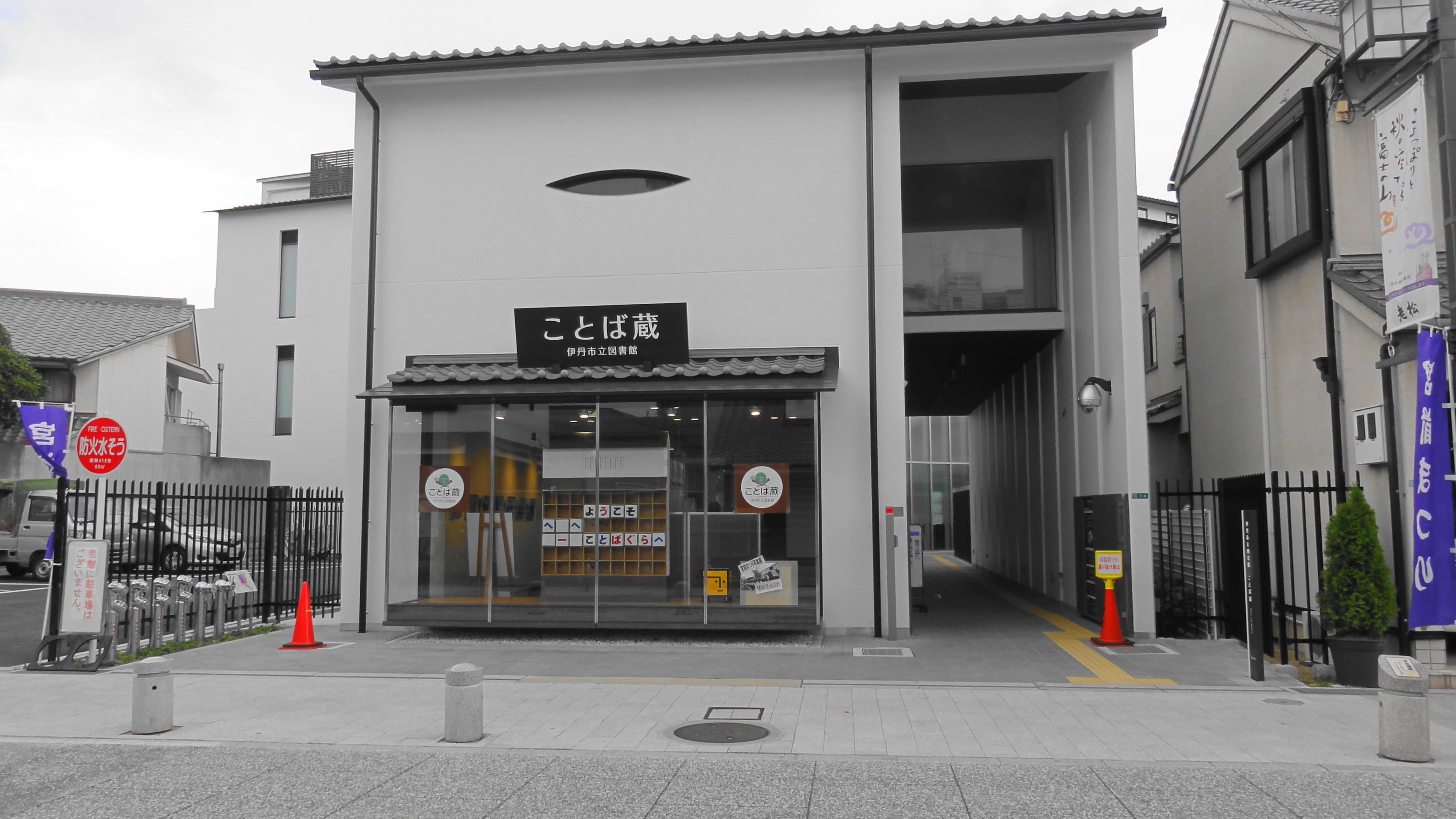 Itami city library Kotobagura ,Hyogo prefecture,Japan